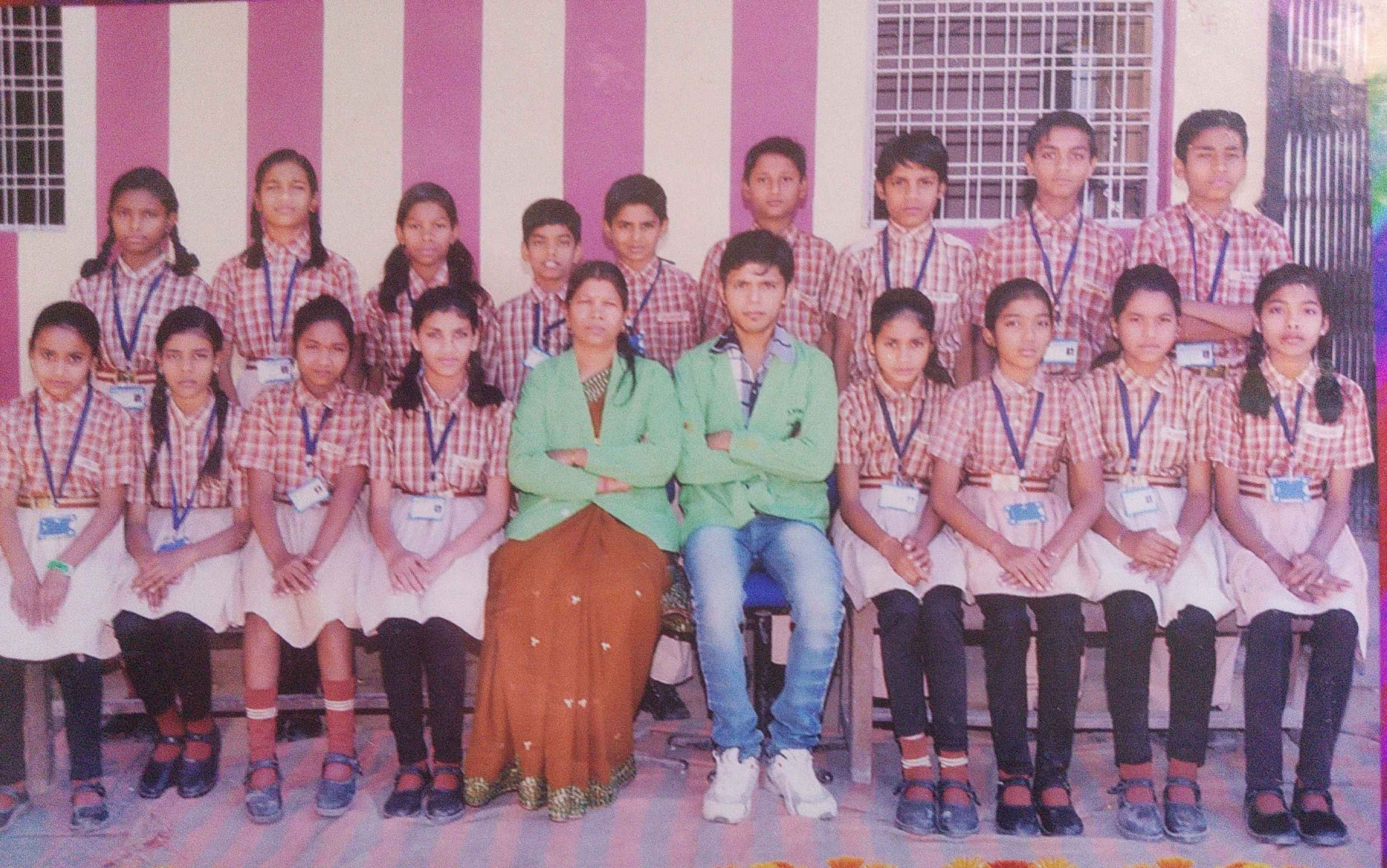 batch of johnsons kids care english medium school with teacher staff